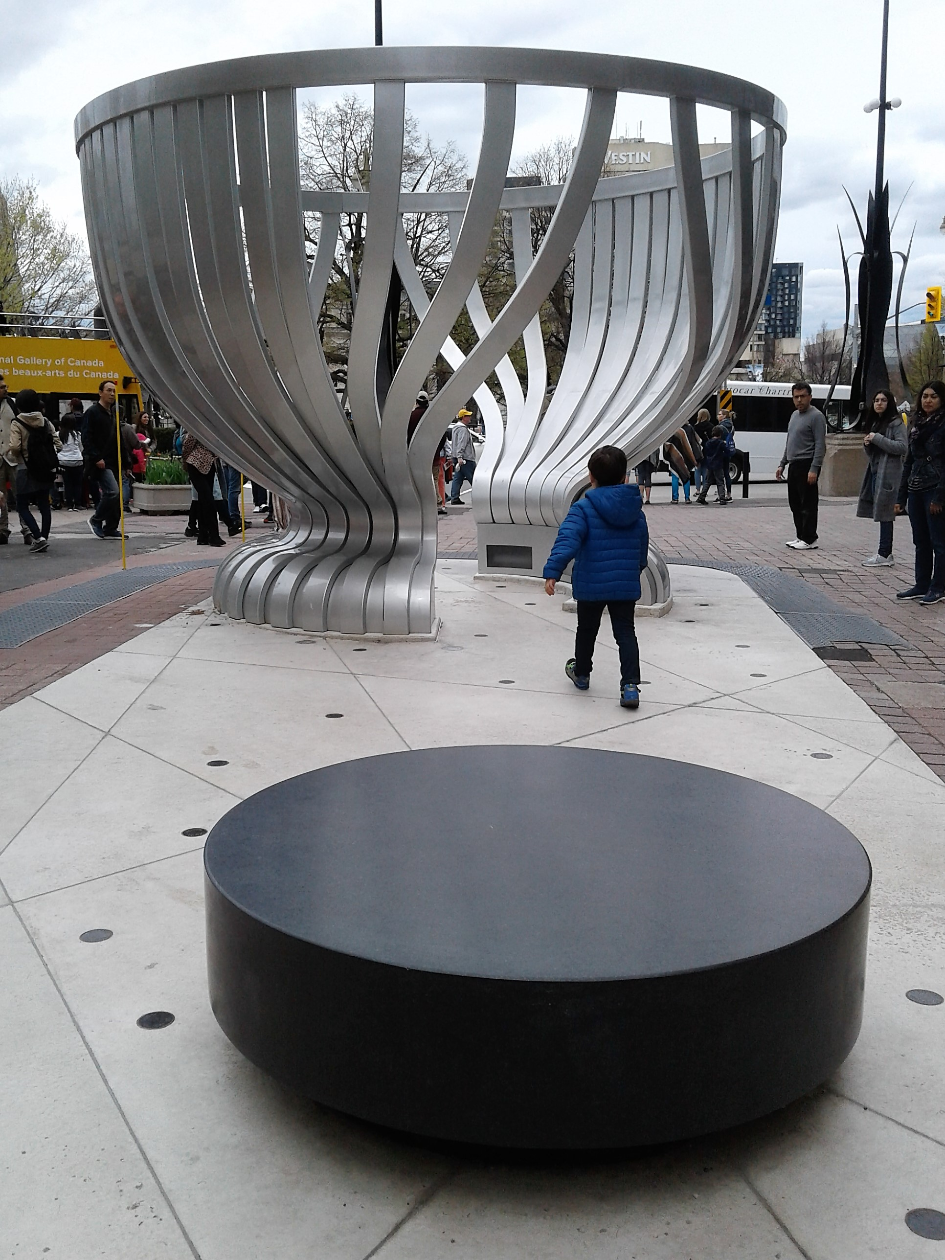 Lord Stanley's Gift Monument, Sparks Street, Ottawa